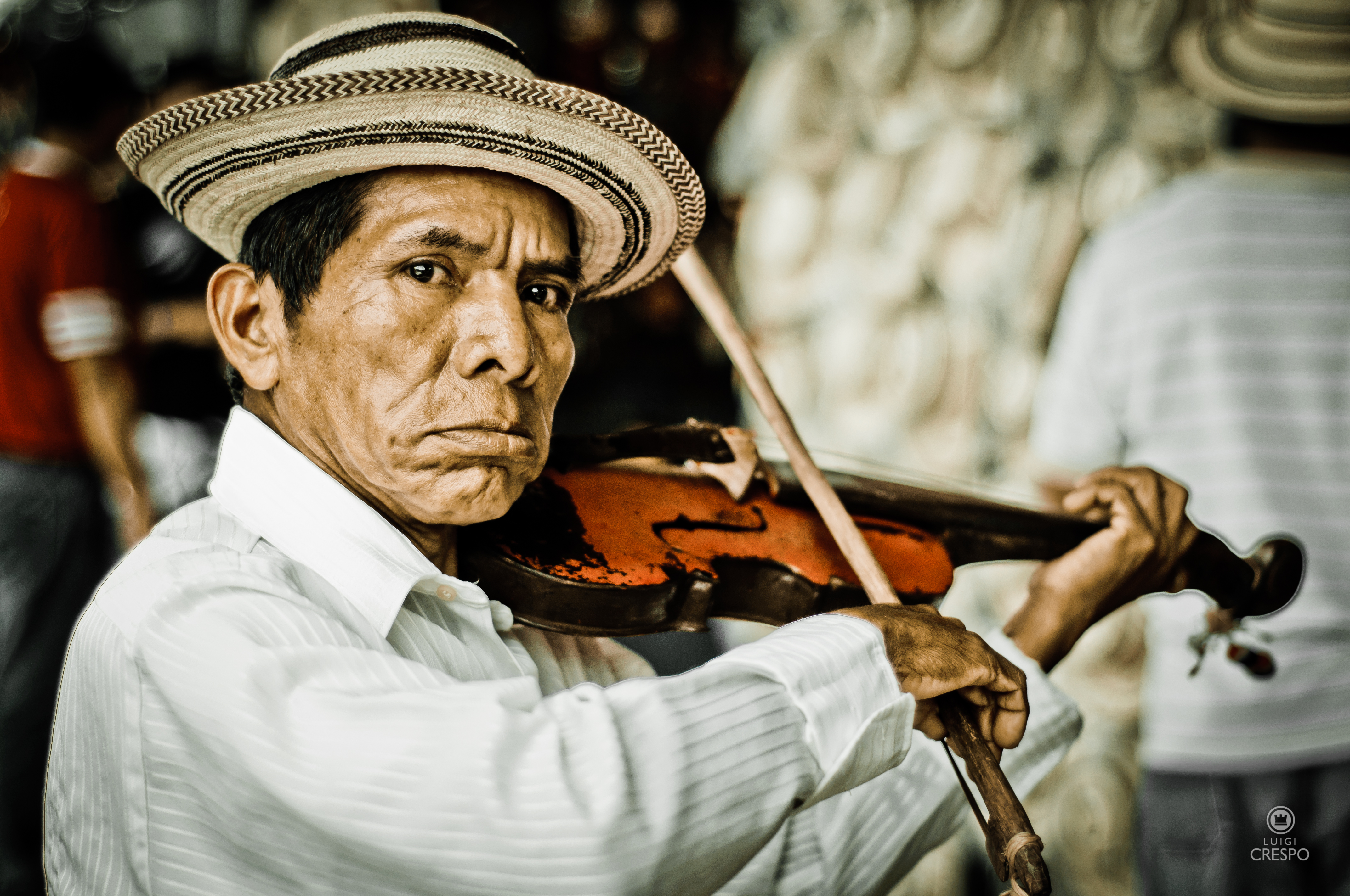 Panamanian, playing traditional Violin